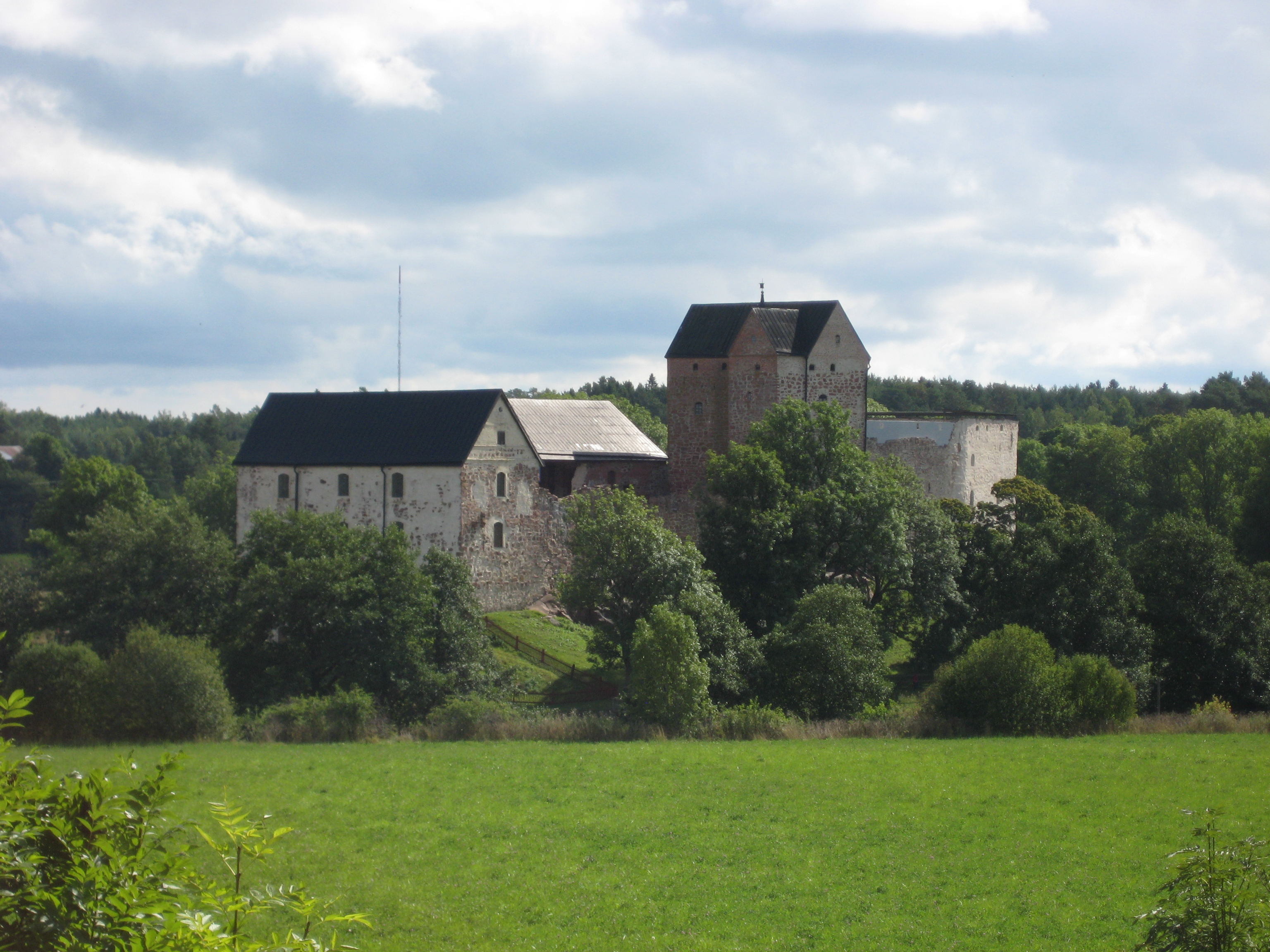 View of Kastelholm castle, Åland islands, Finland.